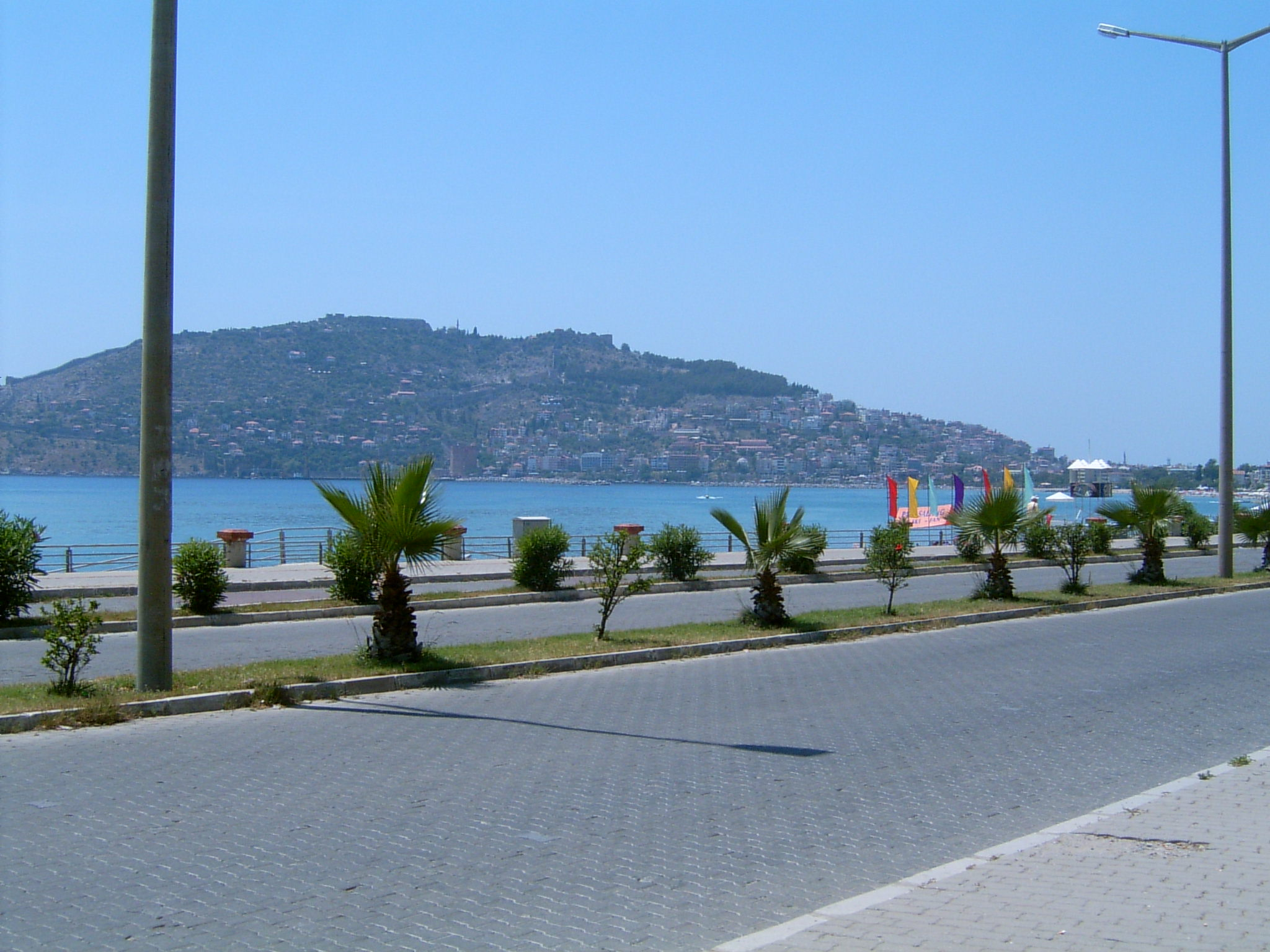 View over the bay and the hill in Alanya, Turkey, seen from Atatürk Caddesi along the eastern beaches. The Kızıl Kule (Red Tower) can be seen in the middle of the peninsula.